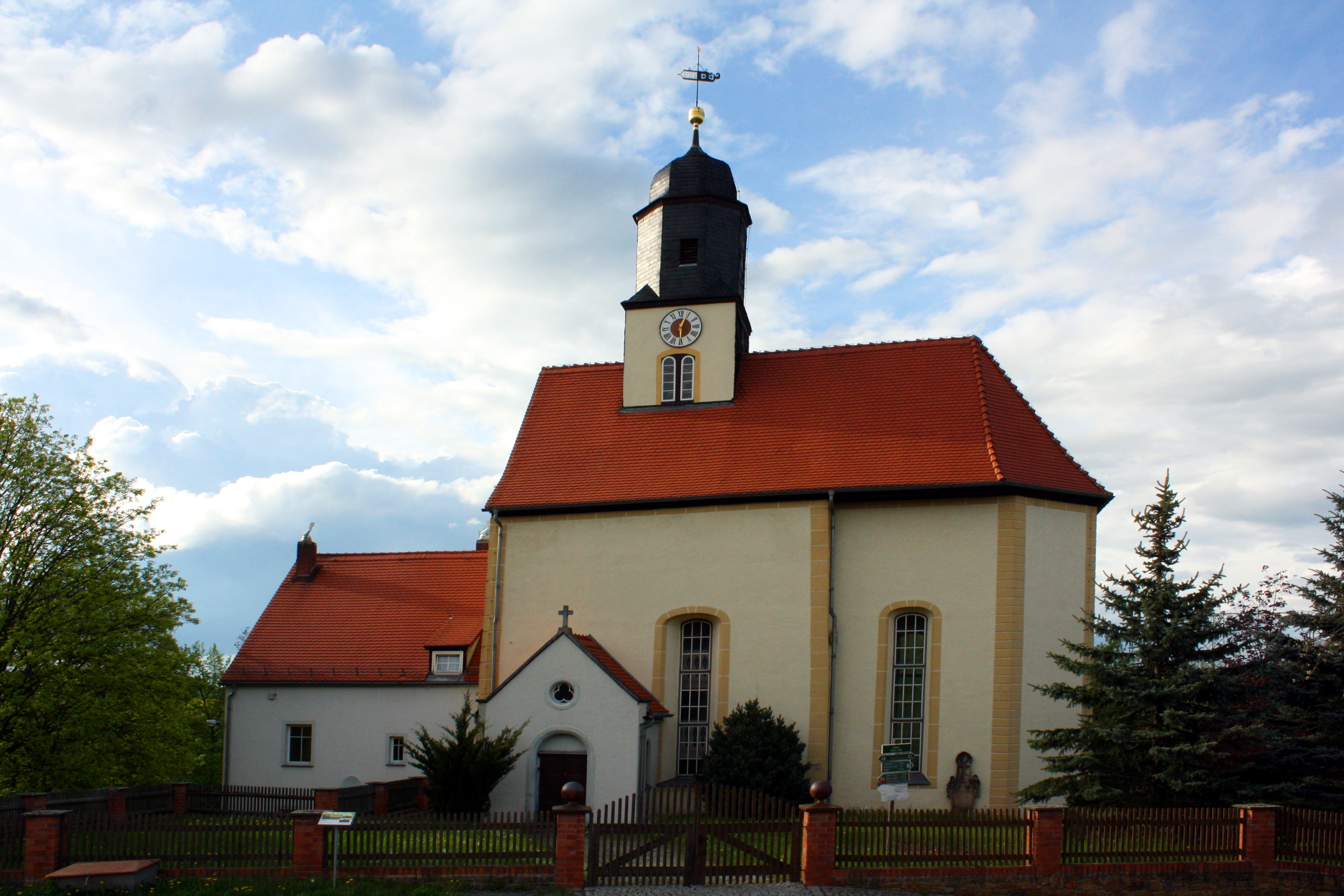 Church in Gauern near Gera/Thuringia